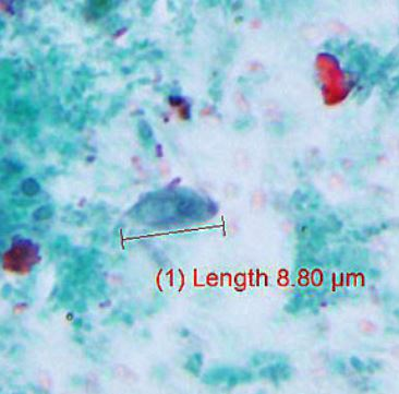 Parasite obtained for analysis by the CDC